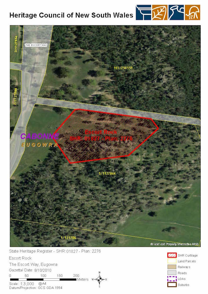 Escort Rock: SHR Plan 2276